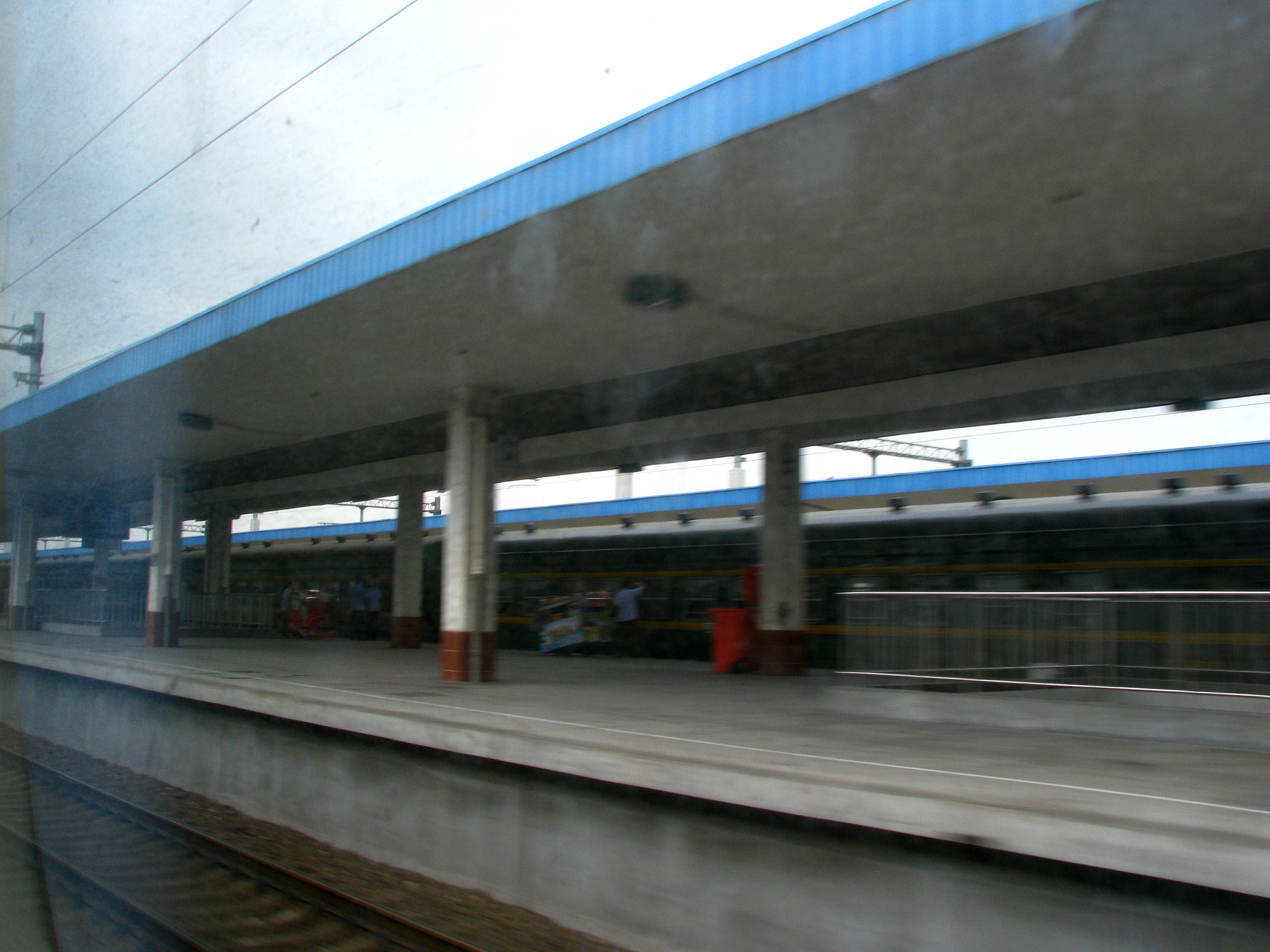 Hangzhou East Railway Station in 2008. It has been demolished in 2009 and a new one is being build.